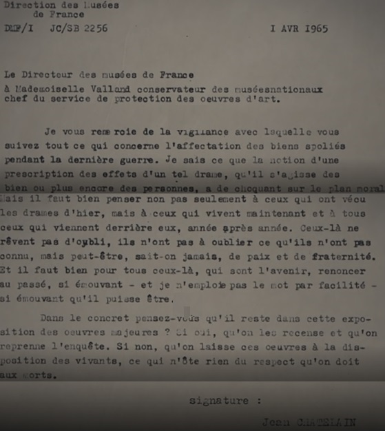 Letter sent by Jean Chatelain to Rose Valland suggesting not to continue working on the return of plundered works